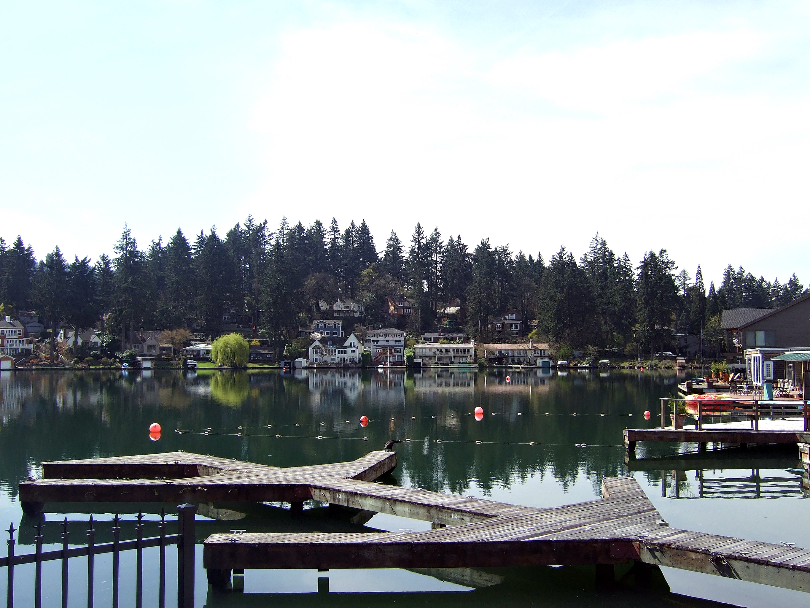 View of Lakewood Bay, Oswego Lake, April 2008